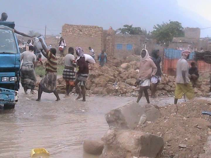 Original description: "Streets were flooded after the cyclone, but after years of war and abject poverty, many locals say they are accustomed to attempting to live normally under adverse circumstances, Socotra, Yemen, Nov. 1, 2015. (R. Mohammed/VOA)"